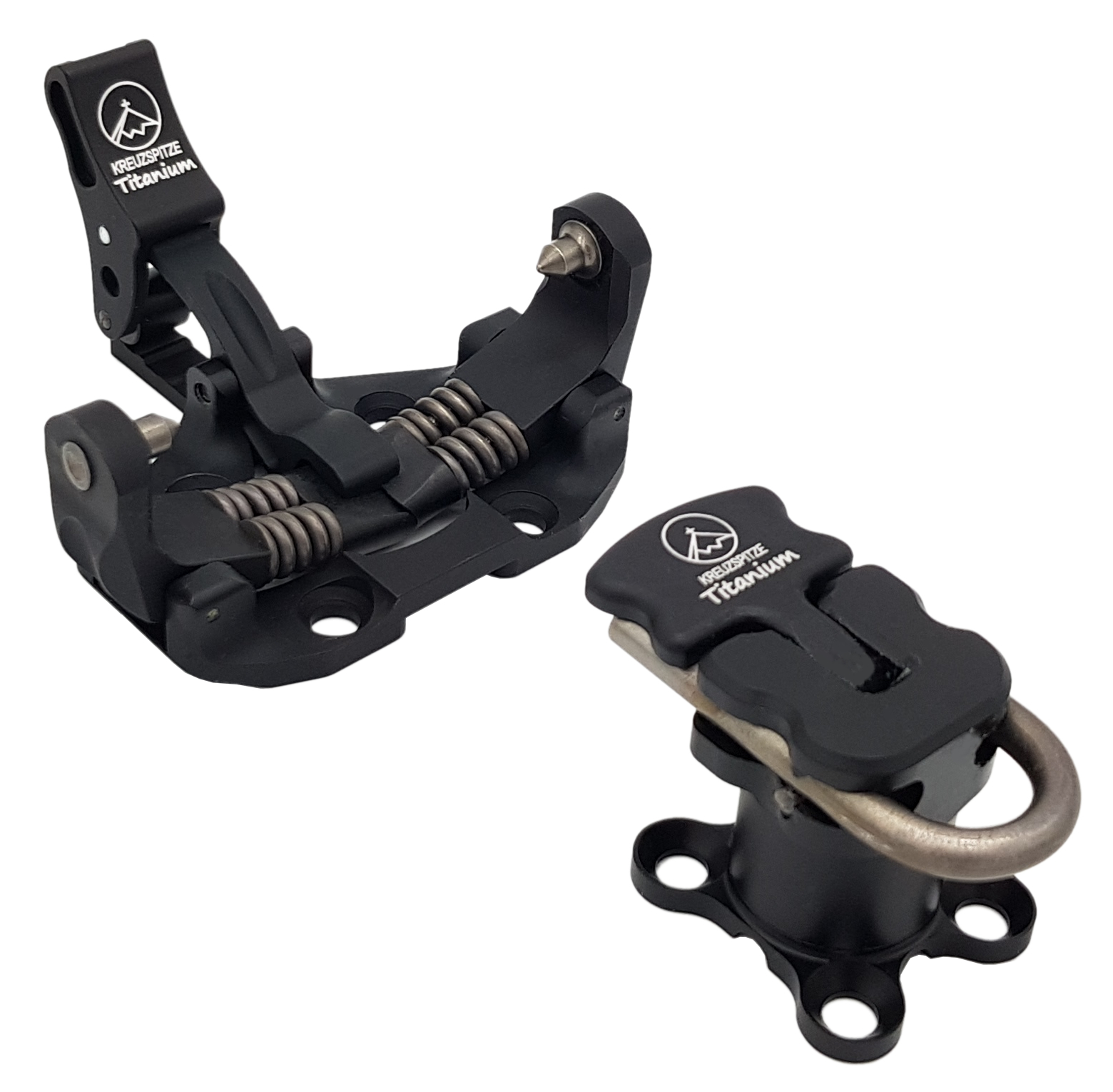 Skimountainering bindings for race